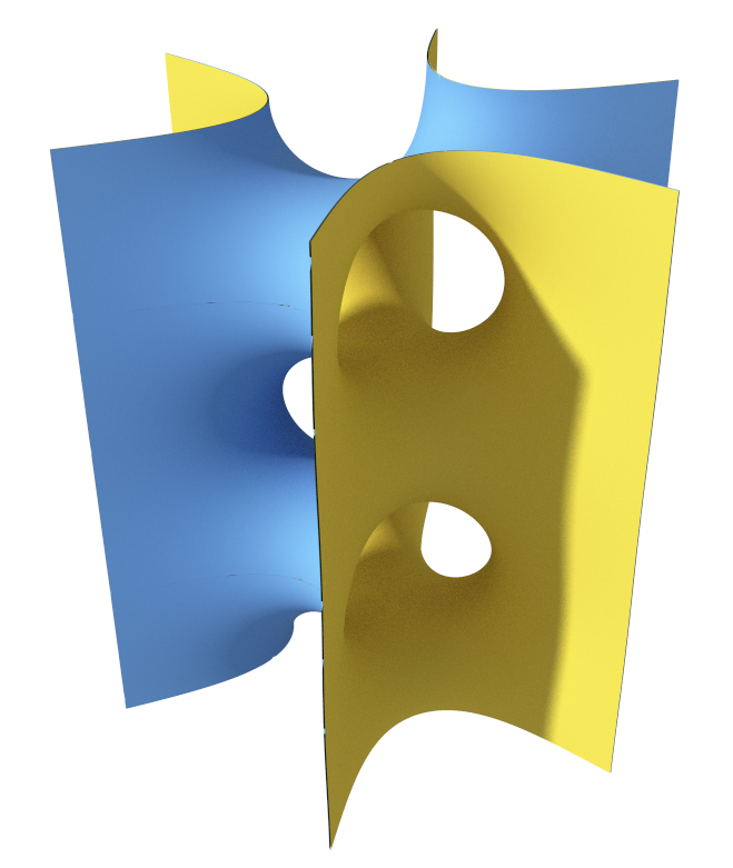 Two periods of the n=3 Karcher saddle tower minimal surface. The original surface mesh is from the The Scientific Graphics Project at MSRI.